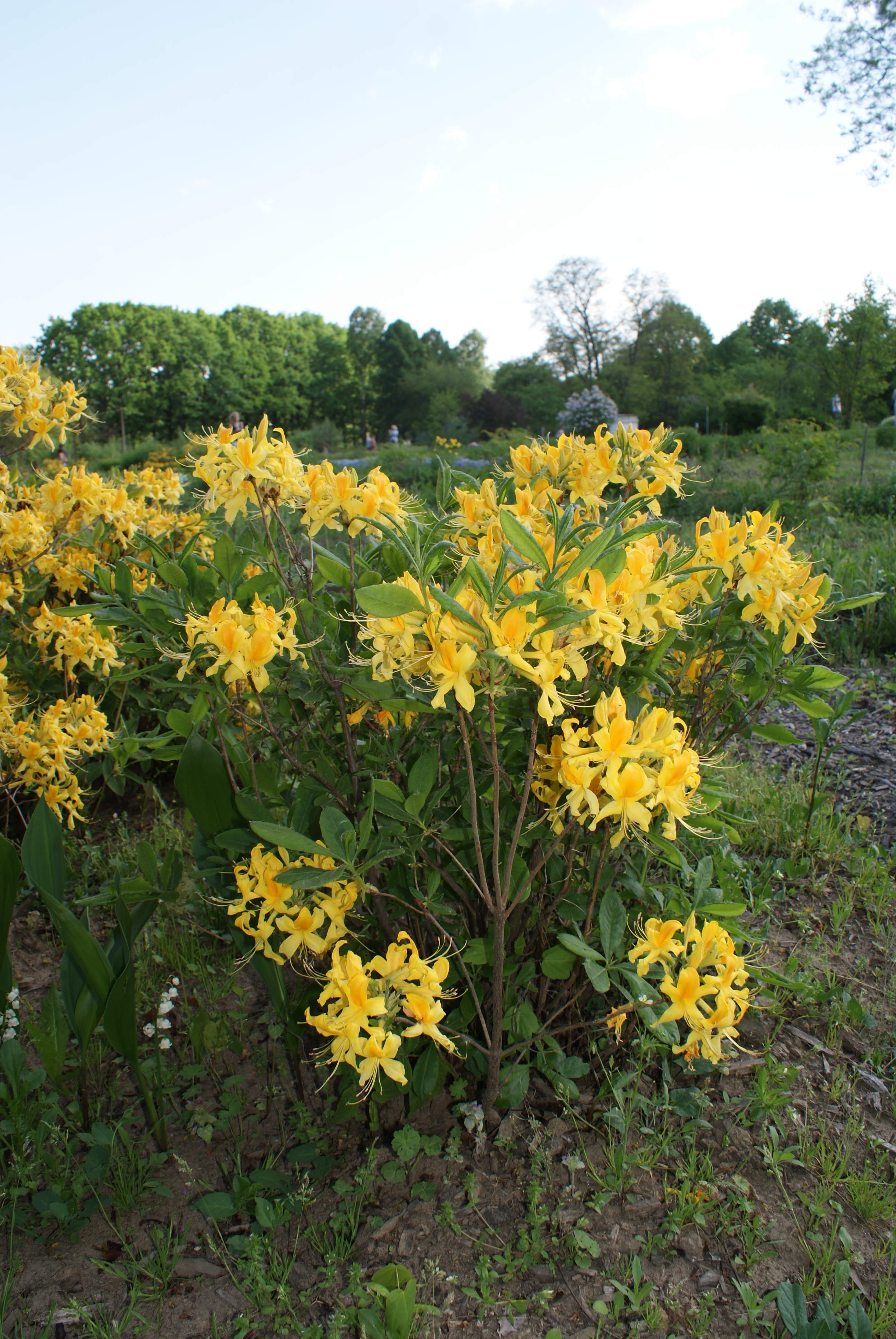 Rhododendron luteum in Botanical garden, Minsk